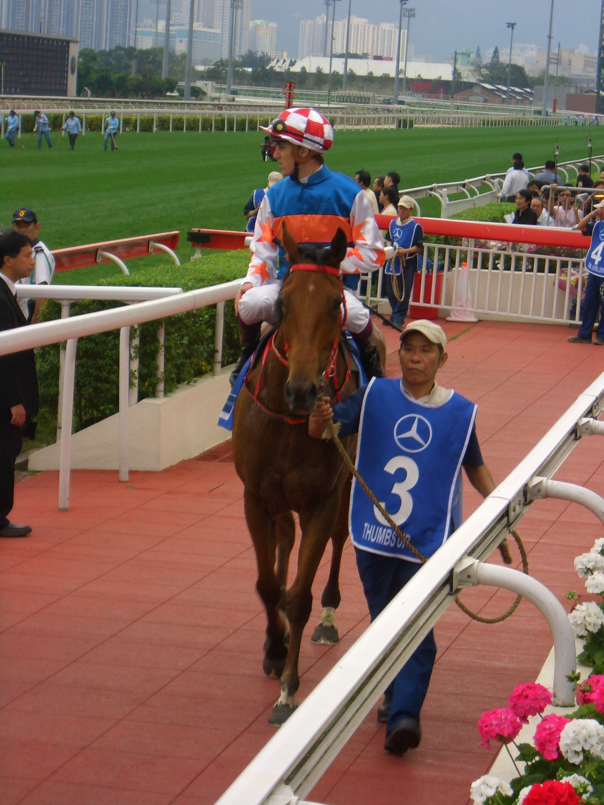 Thums up, runners up in 2009 Hong Kong Derby